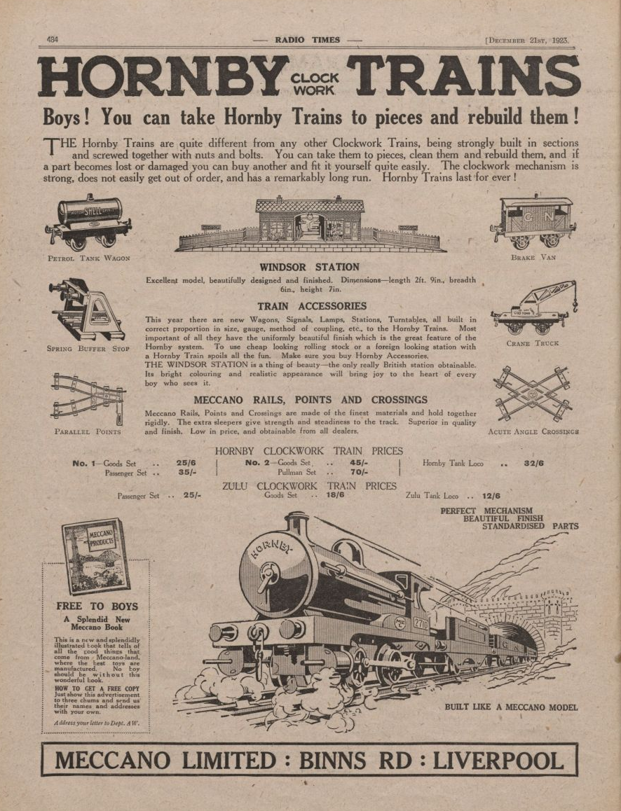 Hornby Trains advert from the Radio Times - 1923-12-21 - p484